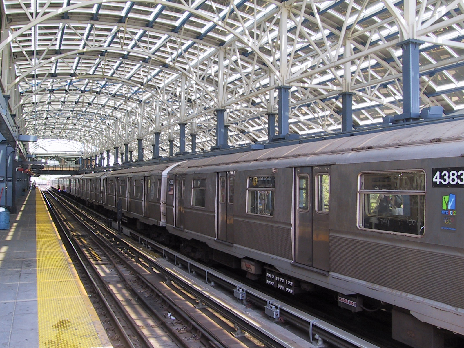 Coney Island Stillwell Avenue terminal of the New York Subway, Coney Island, New York.